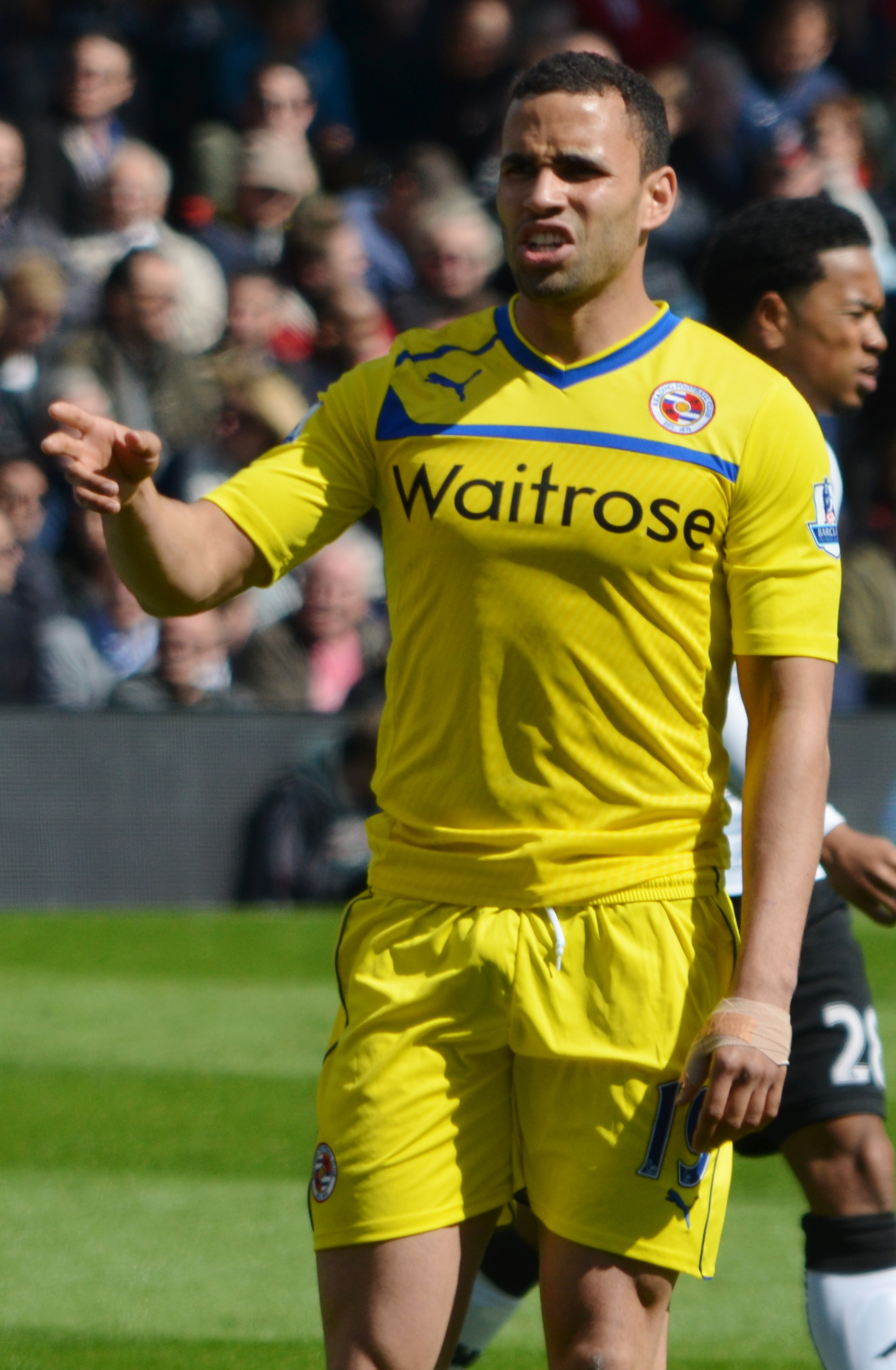 Hal Robson-Kanu. Image cropped from original at flickr.